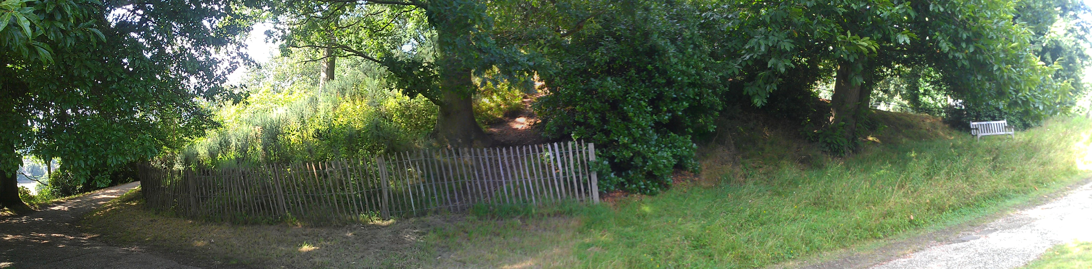 Panoramic view of King Henry's Mound, a possibly prehistoric tumulus, in Richmond Park, West London.